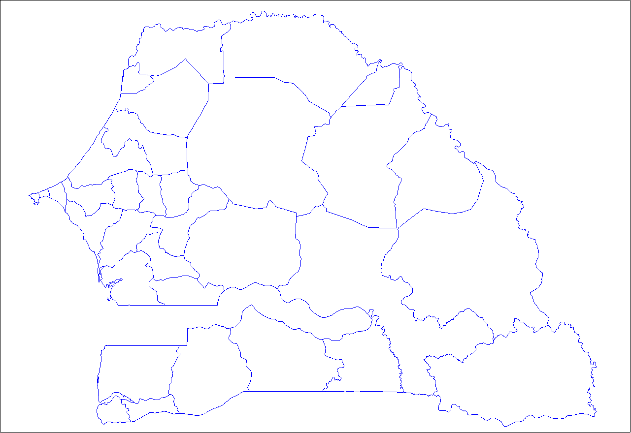 Map of the departments of Senegal. Created by Rarelibra 20:02, 7 December 2006 (UTC) for public domain use, using MapInfo Professional v8.5 and various mapping resources.